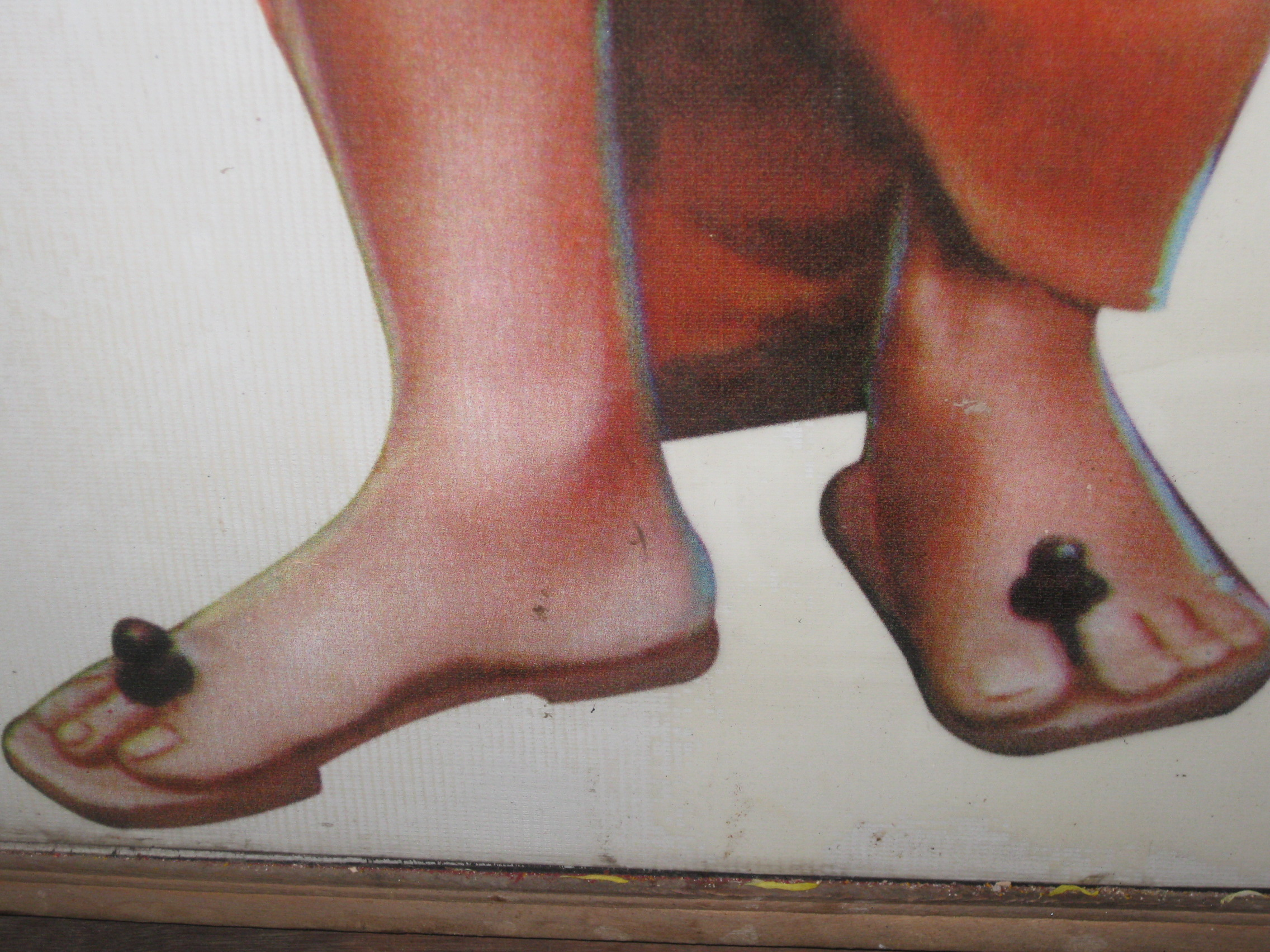 Paduka on Saint's feet